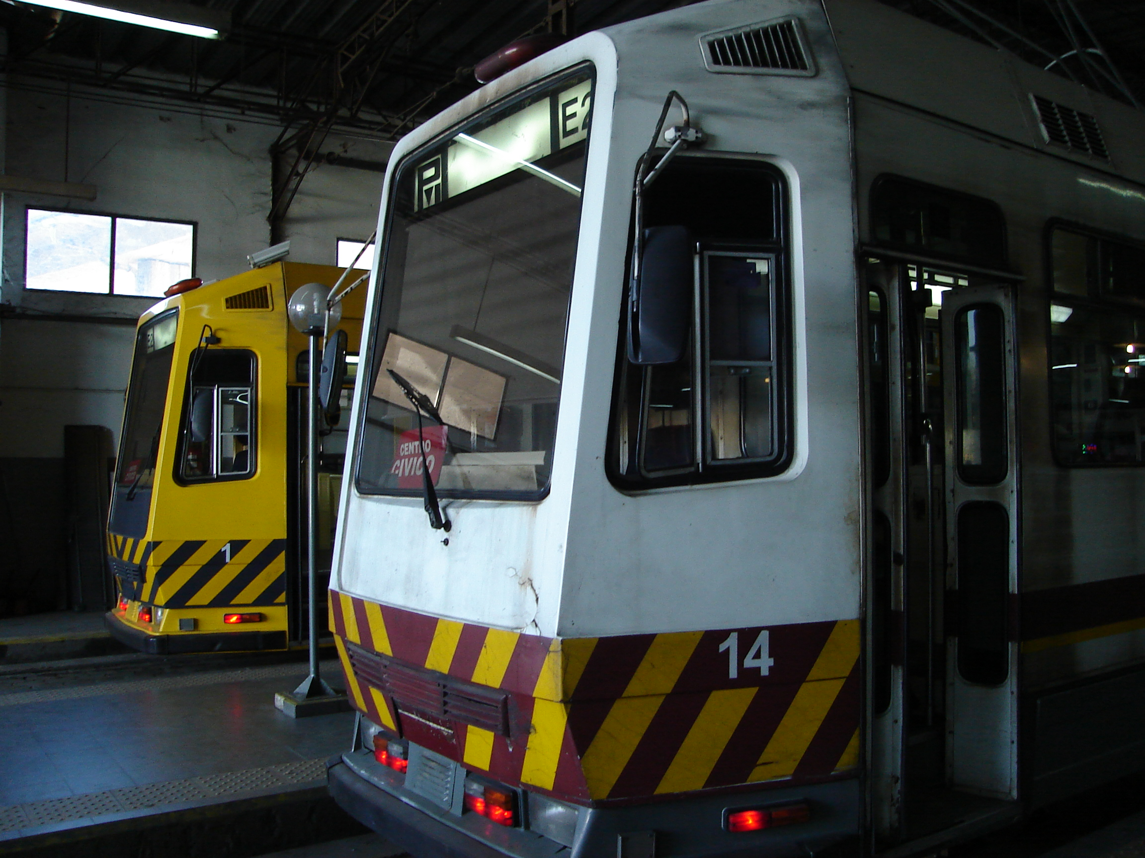 Original and new livery